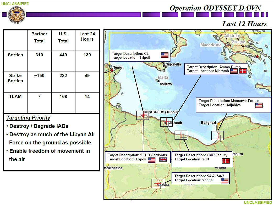 Operation Odyssey Dawn in Libya 2011. Libya Situation as of 24 March 2011. US Vice Admiral Bill Gortney, Director of The Joint Staff: “On the slide to my left, you will -- you will see a quick snapshot of what we have been doing the last day or so. And I’d like to just point out that the data I’m going to provide is as of noon Eastern Standard Time today. As you can see, the coalition, naval and Air Forces have been busy striking fixed targets and some of Colonel Gadhafi’s maneuver forces along the coastline and near the cities of Tripoli, Misrata and Ajdabiya. Ships and subs at sea have launched another 14 Tomahawk cruise missiles at targets ashore and hitting an integrated air defense site near Sebha in the south and a Scud missile garrison near Tripoli. We flew a total of 130 coalition sorties, 49 of which were strike-related, meaning they were designed to hit a designated target. Of those total sorties, roughly half were flown by pilots from partner nations. In fact, nearly all, some 75 percent of the combat air patrol missions in support of the no-fly zone, are now being executed by our coalition partners. On Sunday, that figure was less than 10 percent.”